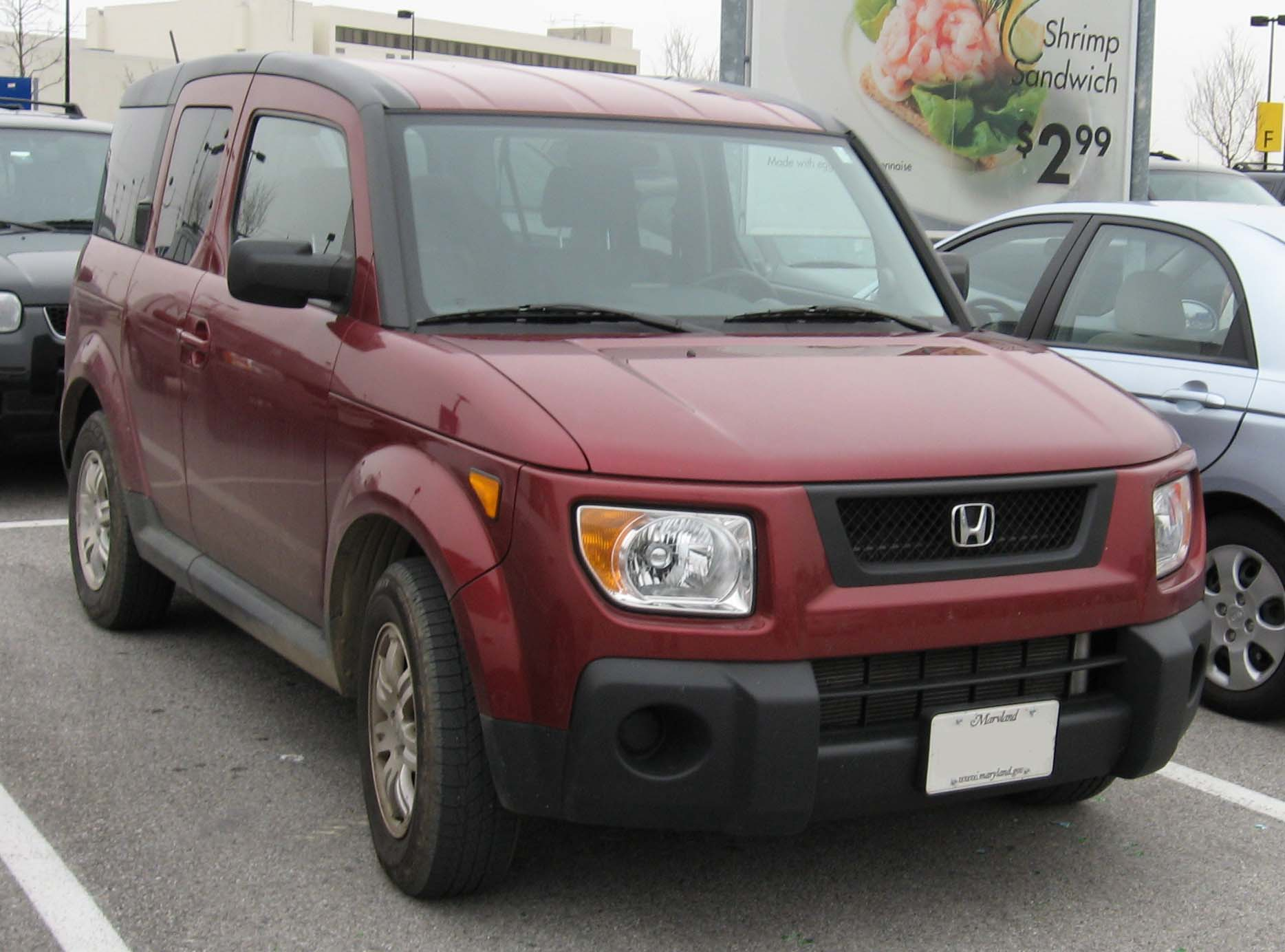 2007 Honda Element photographed in USA.